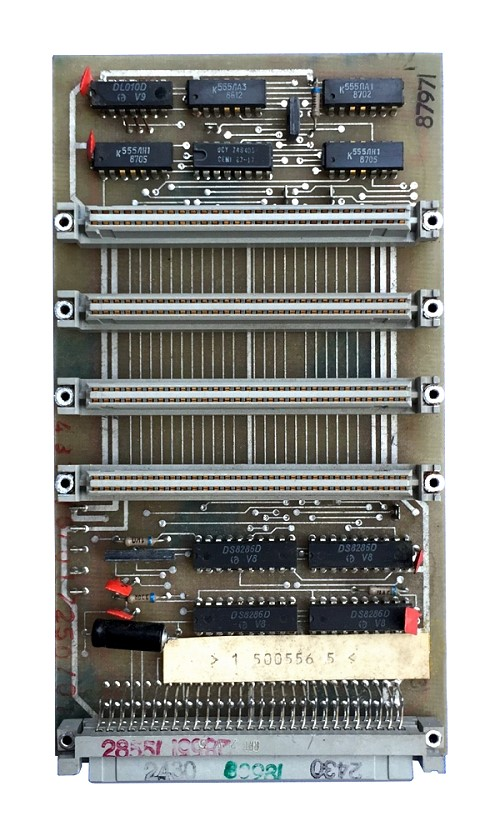 Expansion board for Robotron Z 1013 Computer